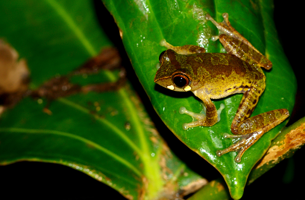 Adult male from Kinabalu National park